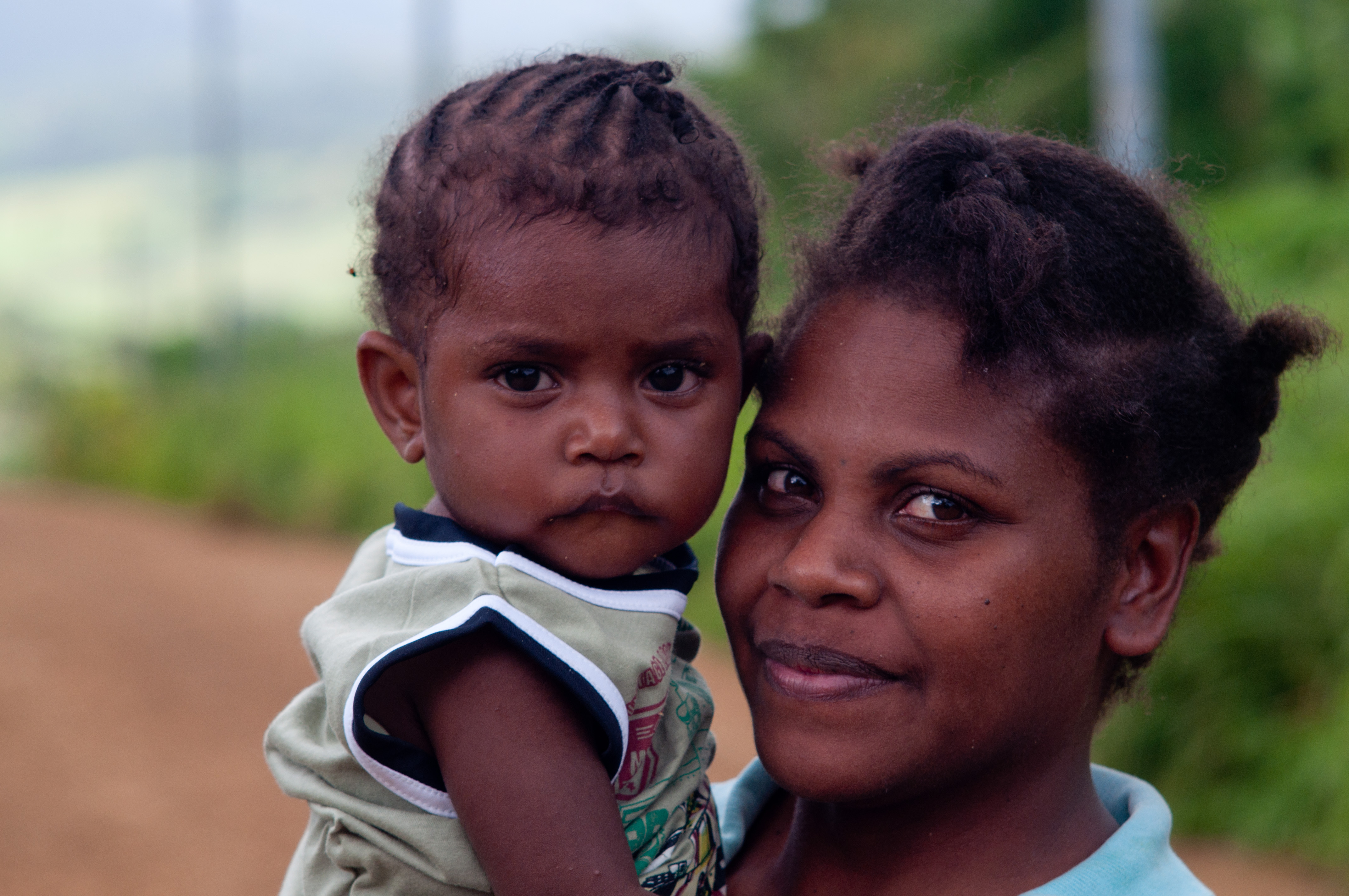 Mother and Child